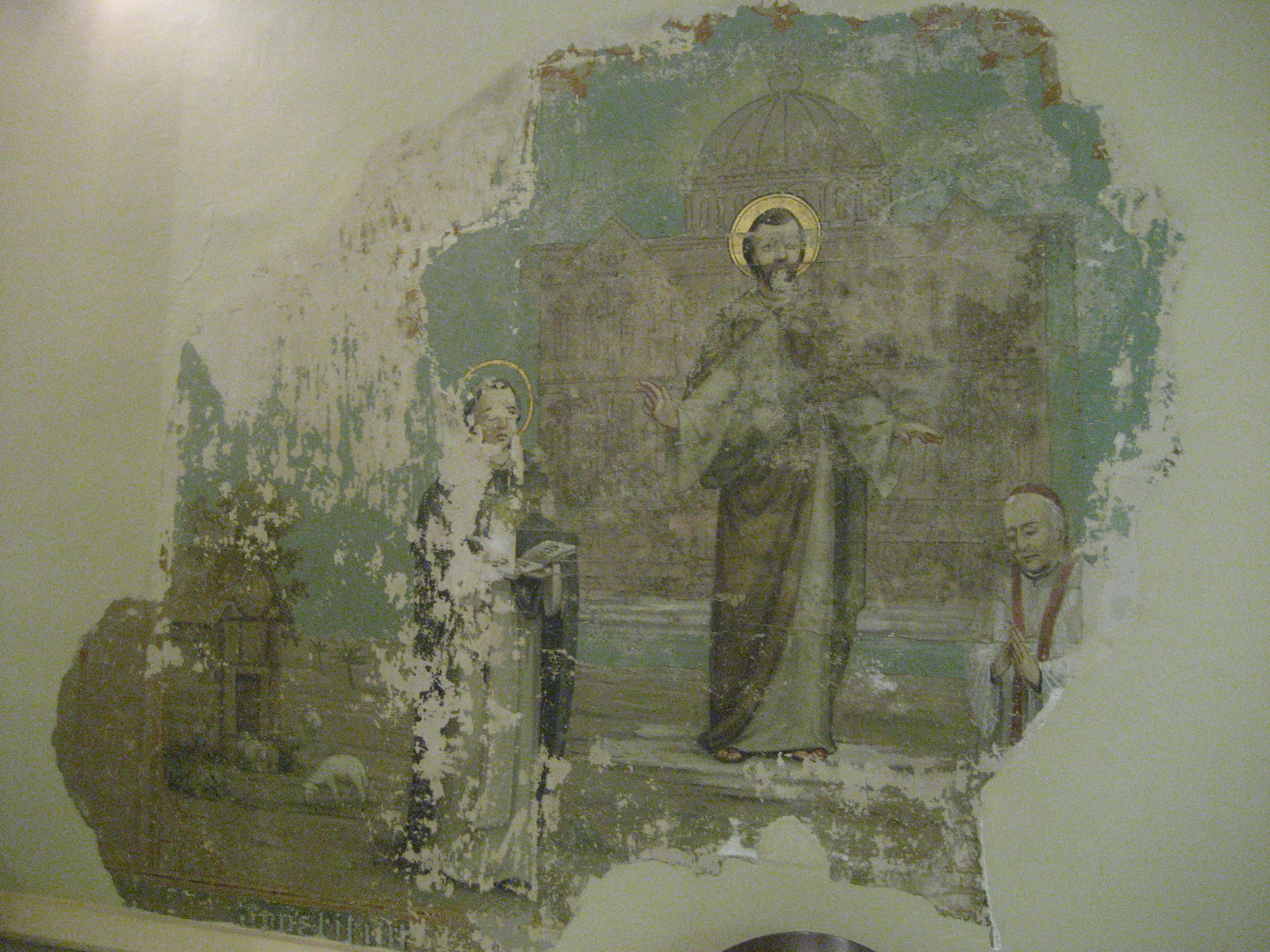 Wall painting in Saint Laurentius Church in Voorschoten (the Netherlands) to commemorate the dogmatic constitution Pastor aeternus (dogma of papal infallibility). Painted in or shortly after 1870; painting rediscovered in April 1996. Depicted, from left to right: flock of sheep (symbol of the church and its followers); Thomas Aquinas holding his book Summa Theologica; Christ (with St. Peter in Rome in the background); Pope Pius IX. Unknown painter.